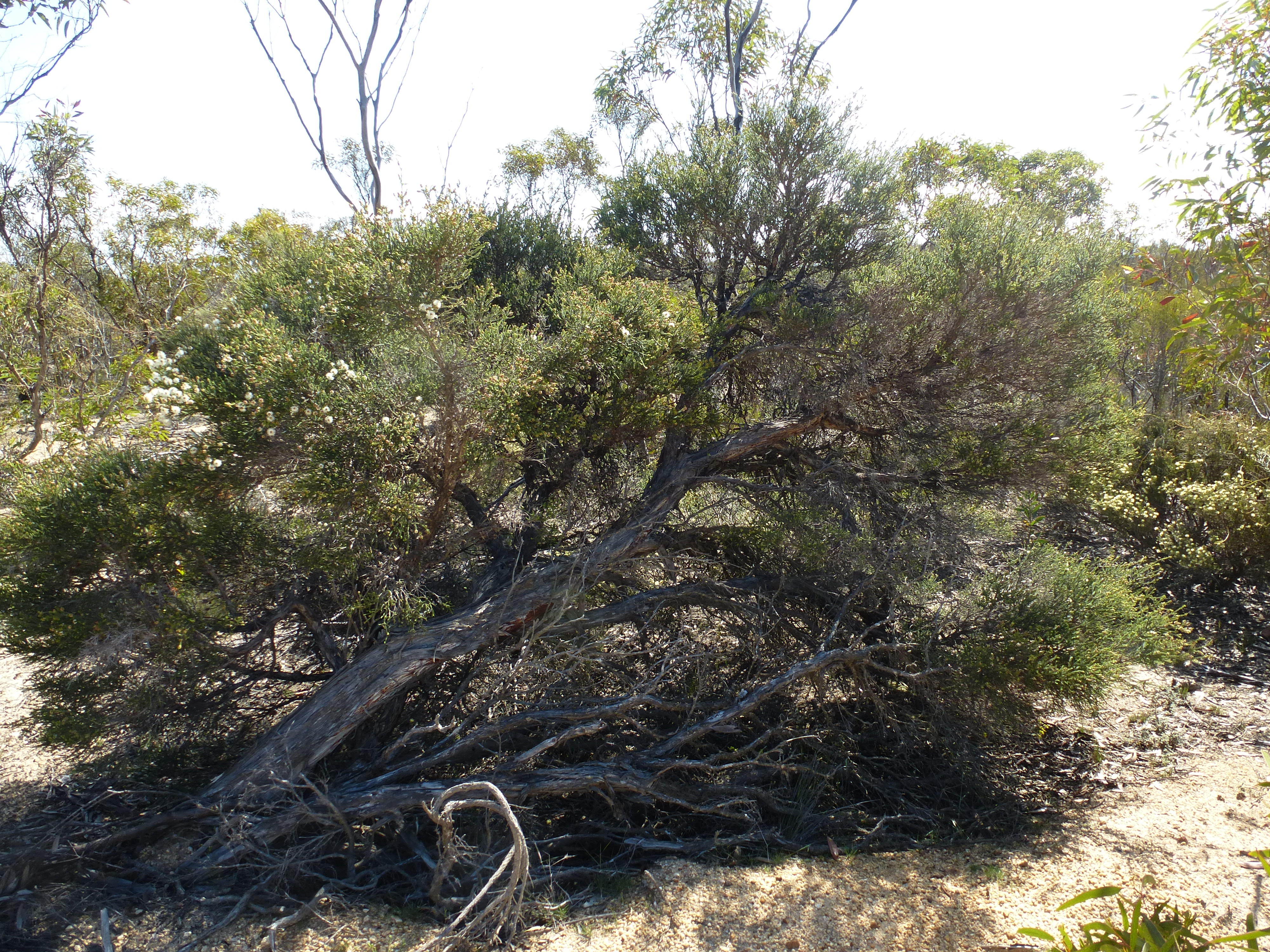 Melaleuca cucullata growing near Ravensthorpe